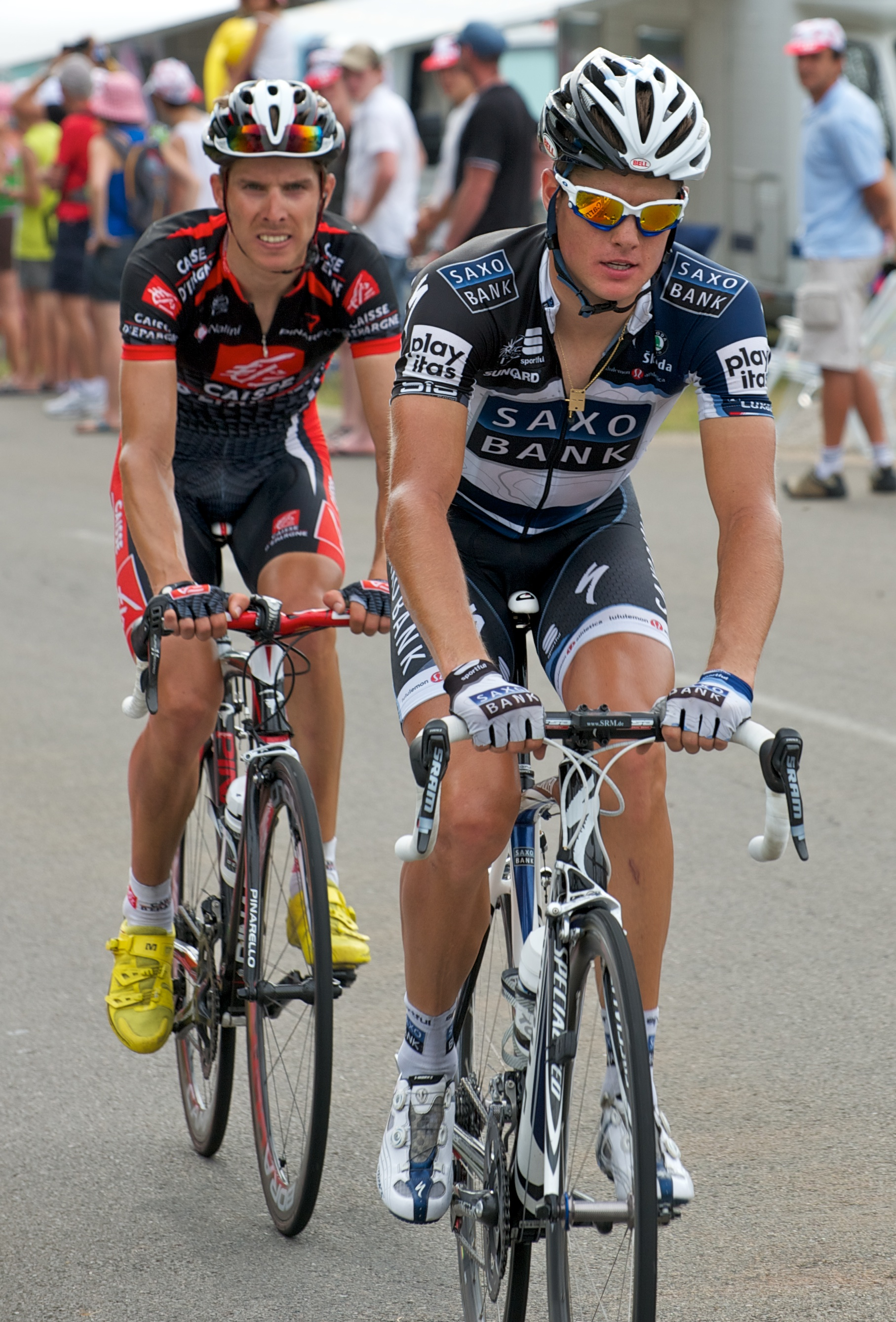 From the placings, I guess this is Jakob Fuglsang and Rui Costa. Correct me if I'm wrong, as my rider identification skills are kinda lousy. Tour de France 2010, Stage 7, 4km before the finish on the last climb.